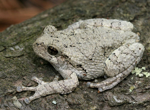 Gray treefrog, Hyla chrysoscelis. Location: Durham, North Carolina, United States. (The visually identical Hyla versicolor is not reported from this area. Reference: Bernard S. Martof et al. (1980). Amphibians and Reptiles of the Carolinas and Virginia. Chapel Hill: University of North Carolina Press. ISBN 0807842524.)